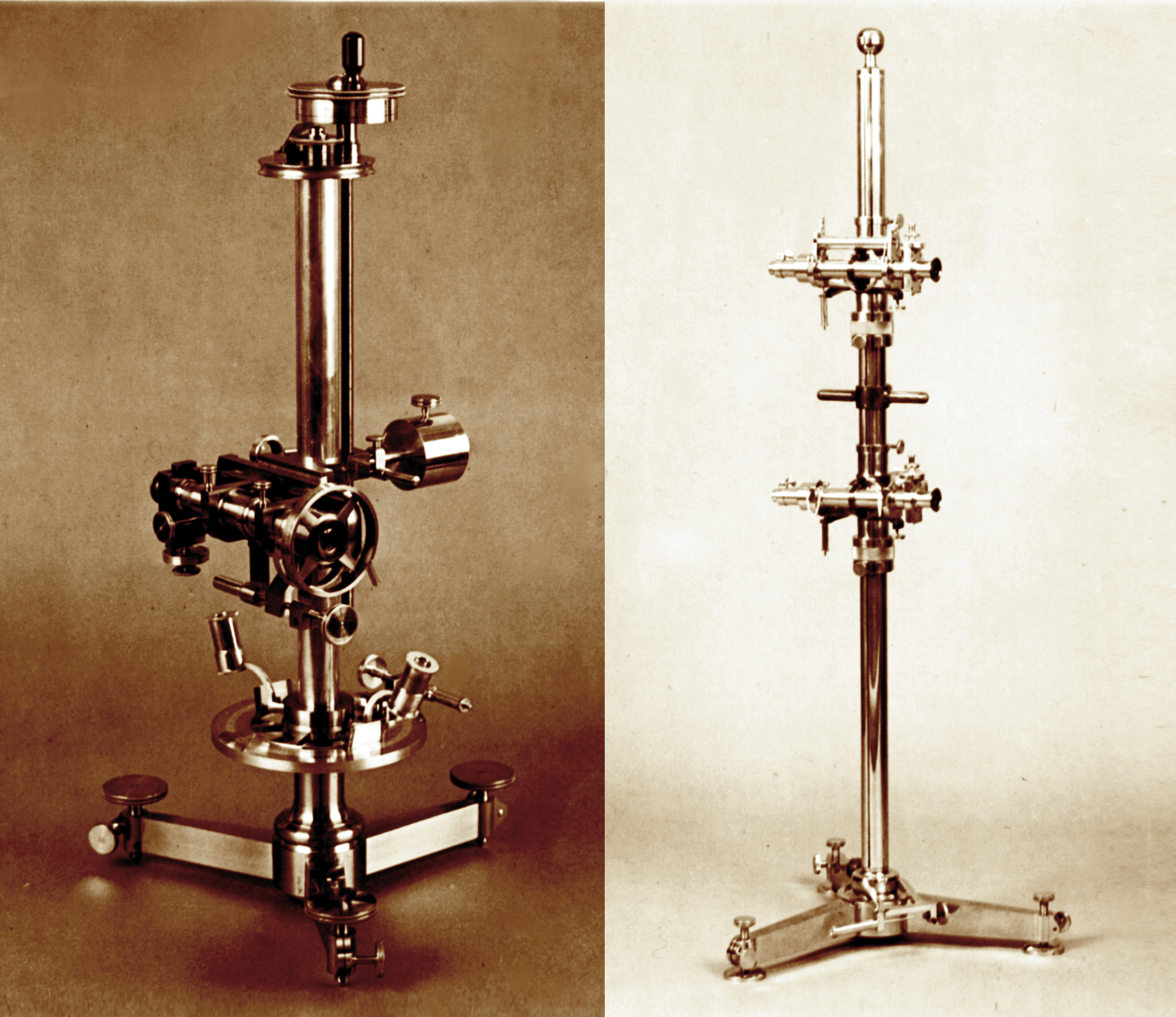 Katetometr and komparator that have been made French engineer Salleron for D. I. Menedleev